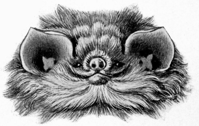 Furipterus horrens (F.Cuvier, 1828), head from front